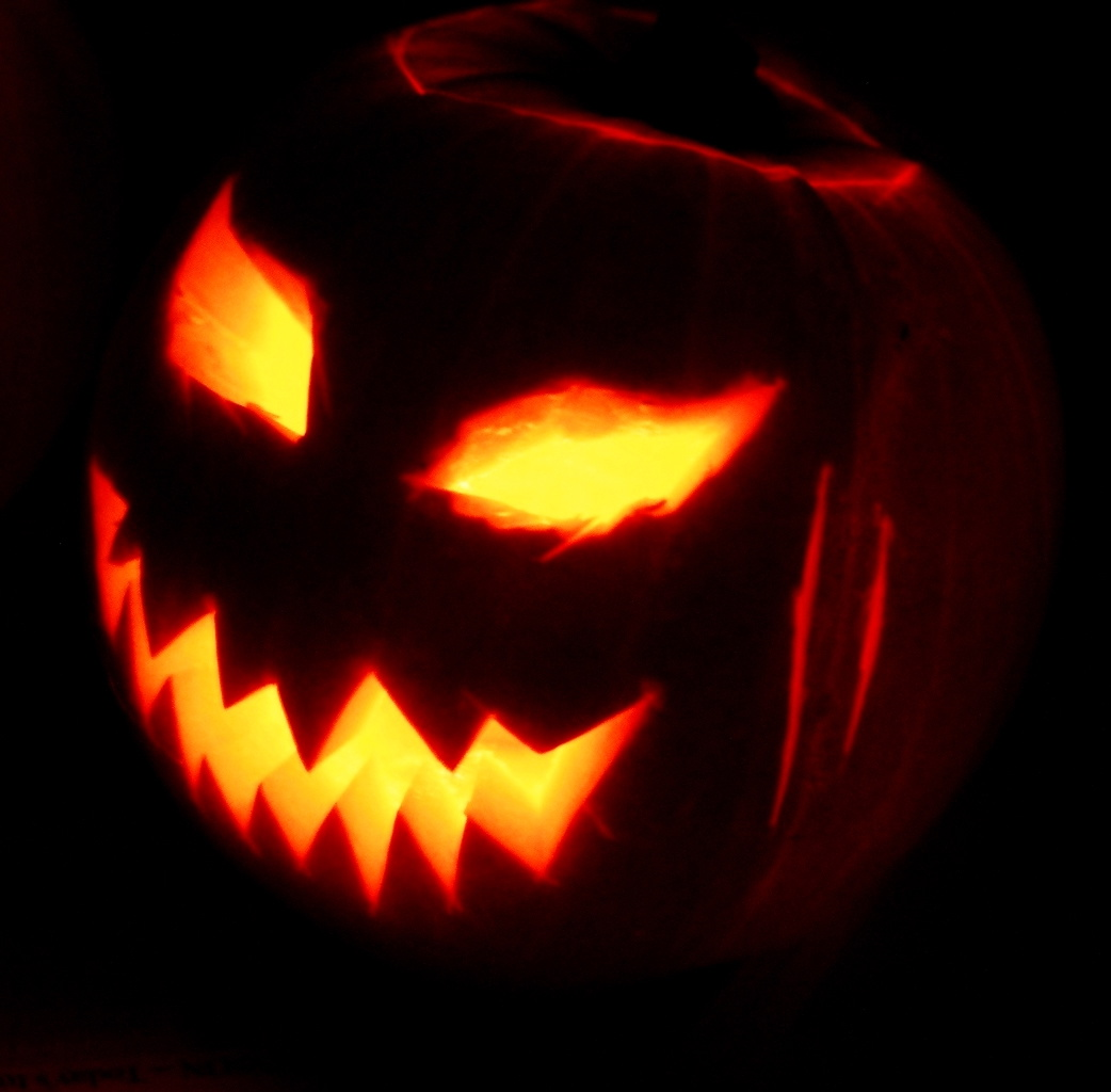 A Jack o' Lantern made for the Holywell Manor Halloween celebrations in 2003.